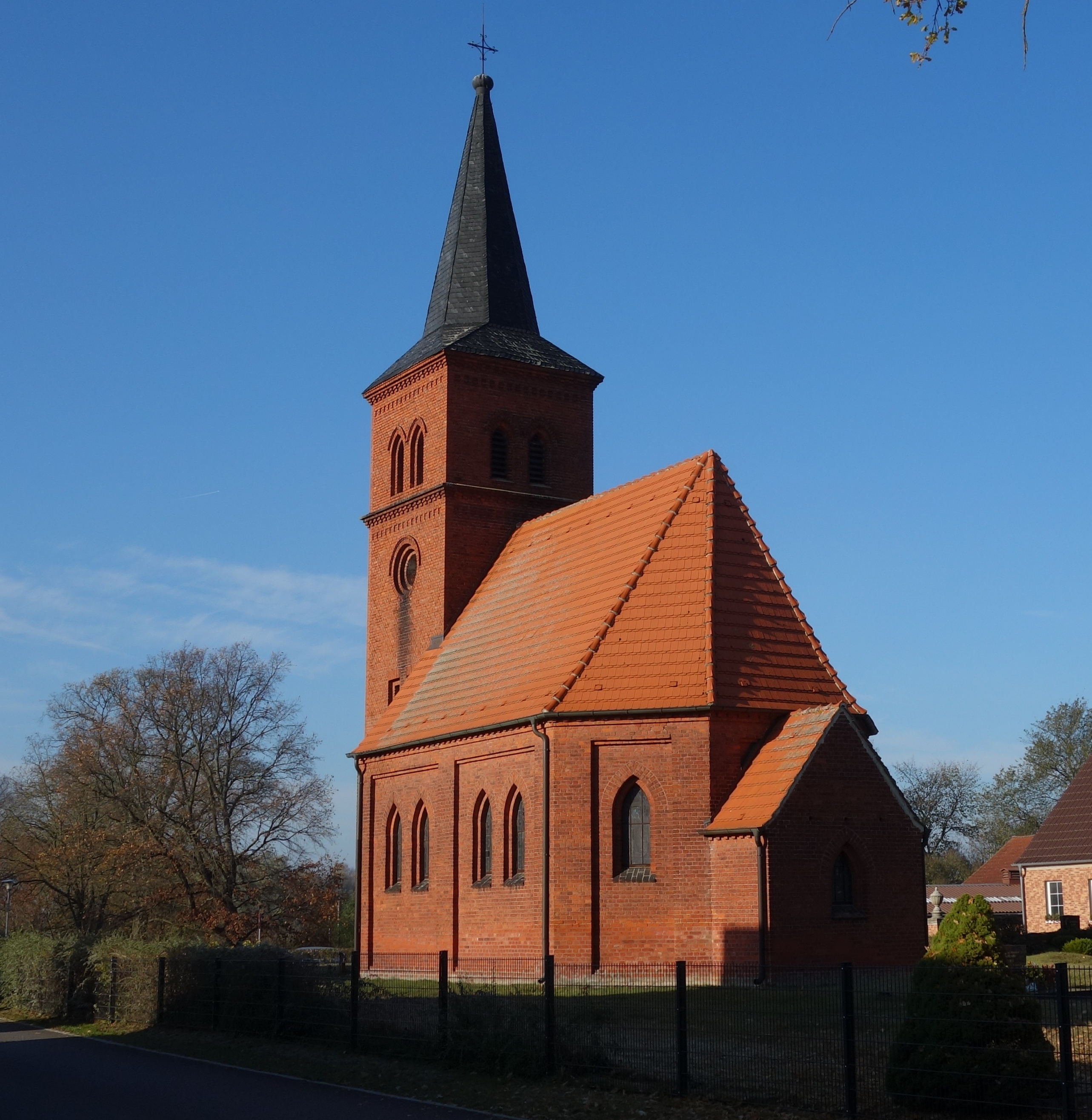 South-eastern view of church in Prietzen, Havelaue municipality, Havelland district, Brandenburg state, Germany